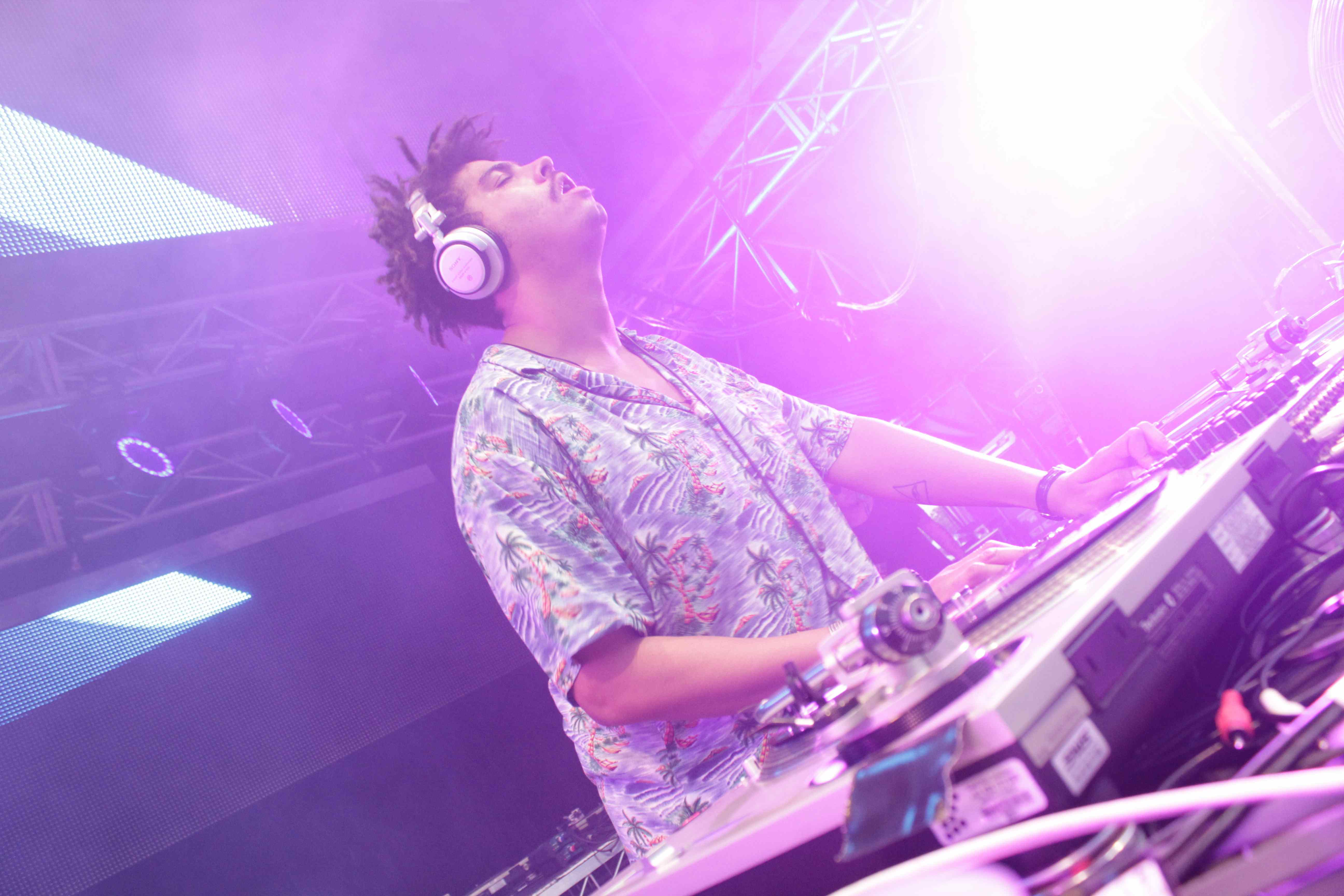 Seth as hendrix, SummaDayze 2012 Melbourne, Australia